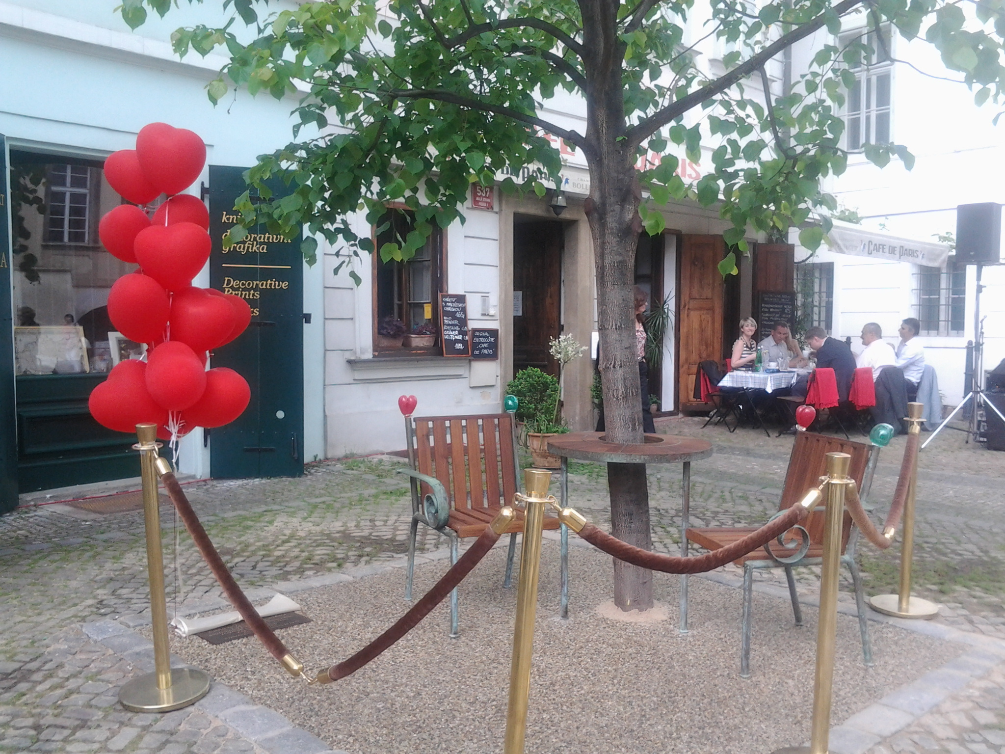 Former Czech president Vaclav Havels bench is located on the Maltese Square in Prague near Kampa Park; the ceremonial unveiling of 1 May 2014. Proposal author: Borek Sipek.